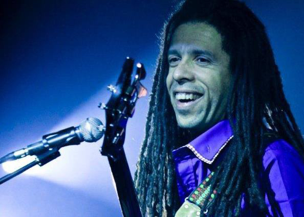 Bassist Yossi Fine performing live in Havana.